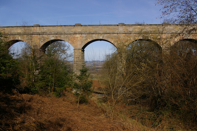 Elan Aqueduct Although most of the Elan Aqueduct through Bringewood is buried, here it crosses a valley in this impressive stone built multi-arch bridge.